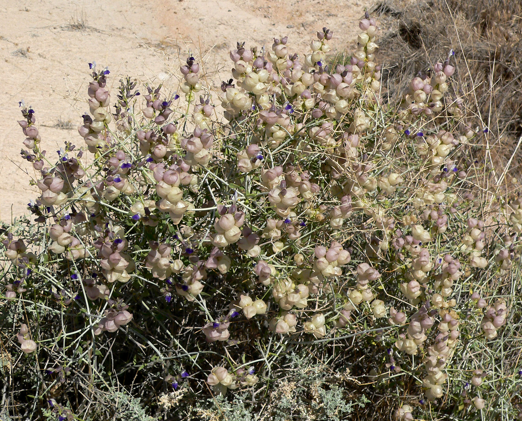 Salazaria mexicana near the Hidden Valley Road south of Moapa, close to Interstate 15 exit 88, southern Nevada